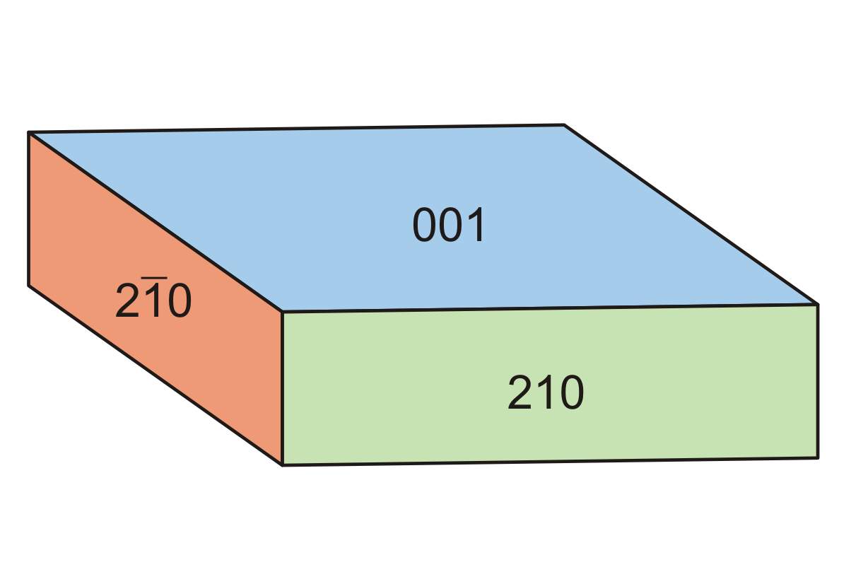 drawing of a rappoldite crystal with crystal forms {210}, {2-10} and {001}; reference: U. Baumgärtl in